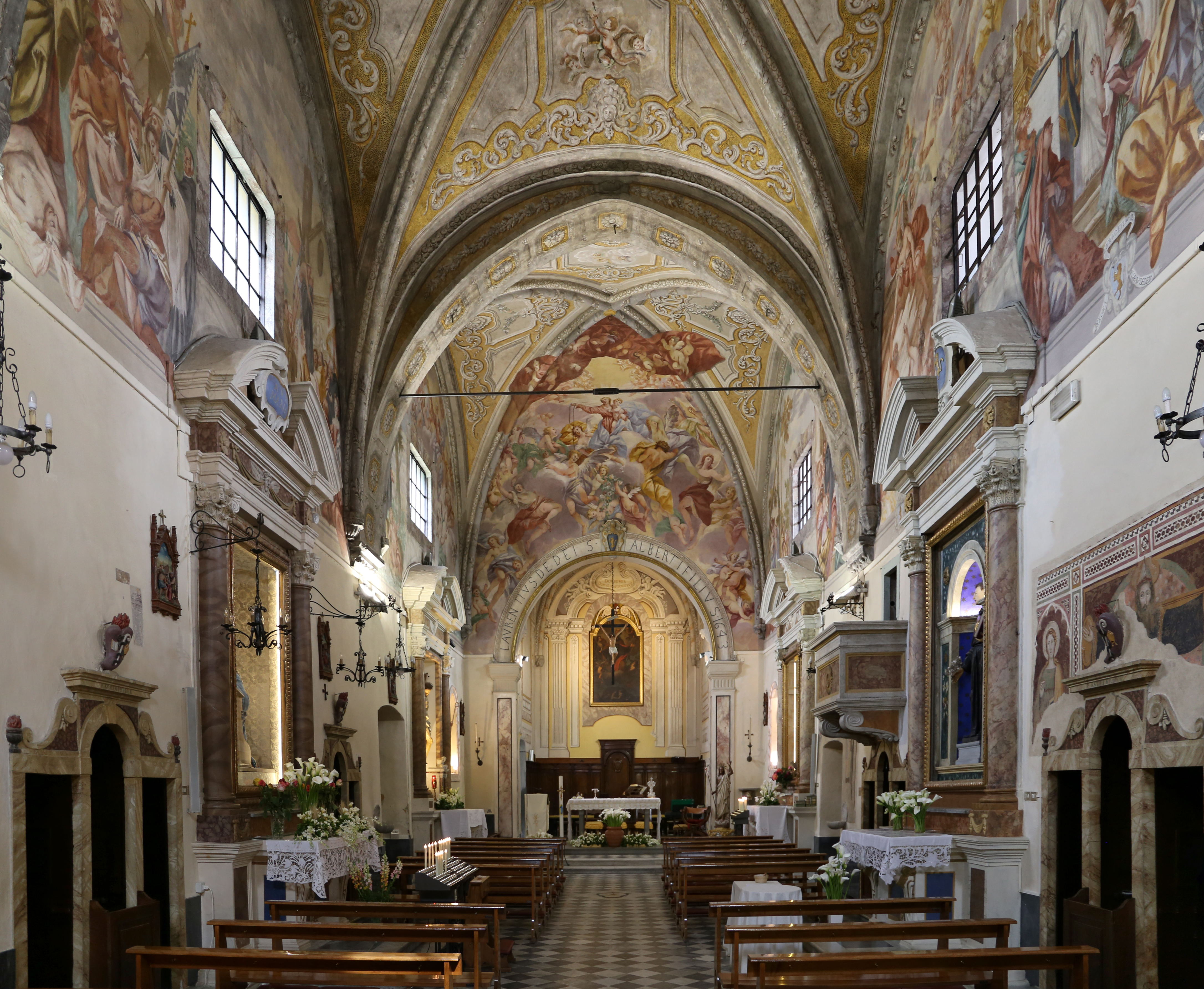 Santa Maria in Selva (Borgo a Buggiano)